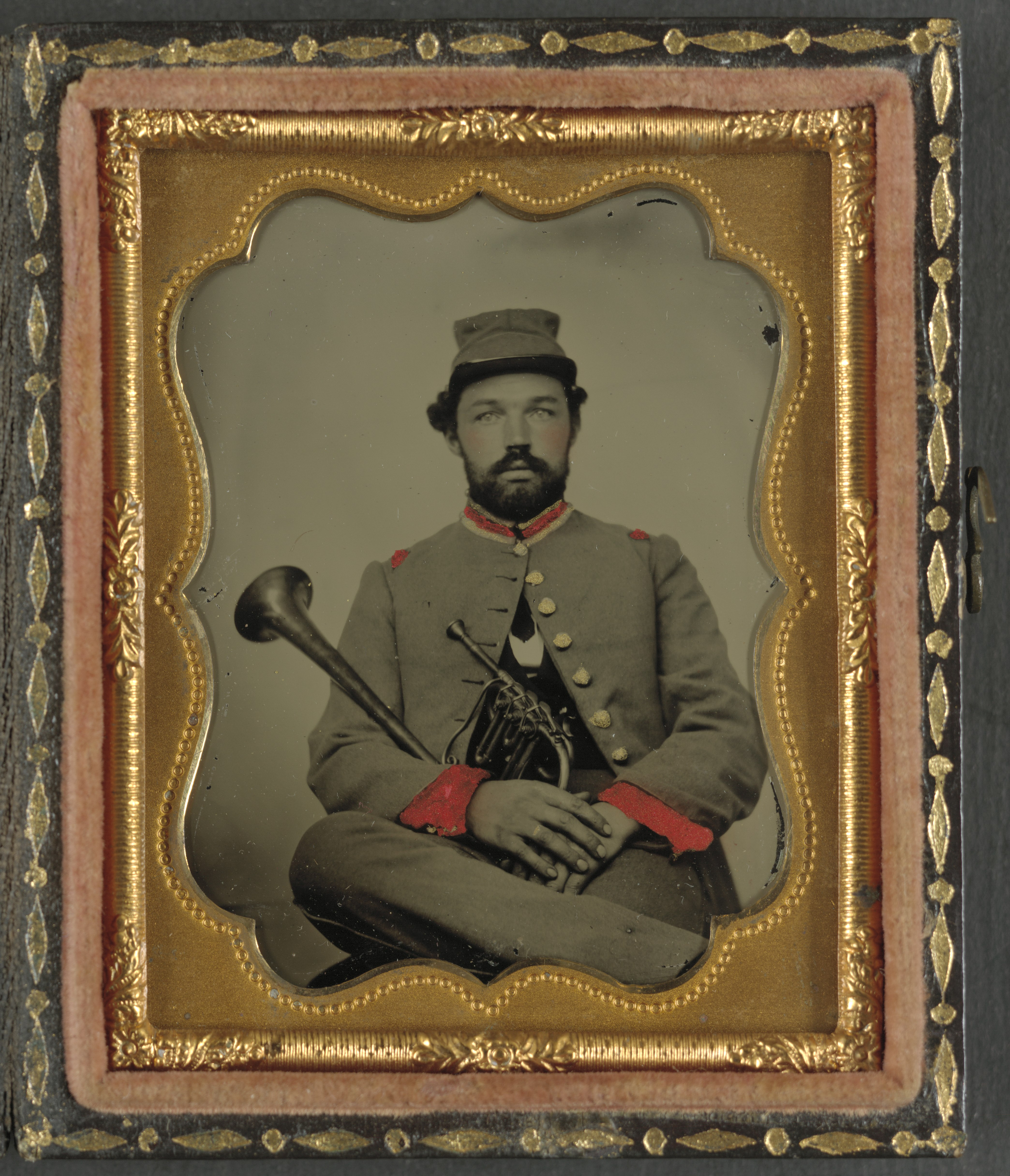 Title: Unidentified soldier in Confederate uniform with saxhorn Abstract/medium: 1 photograph : ninth-plate ambrotype, hand colored ; 7.4 x 6.3 cm (case)